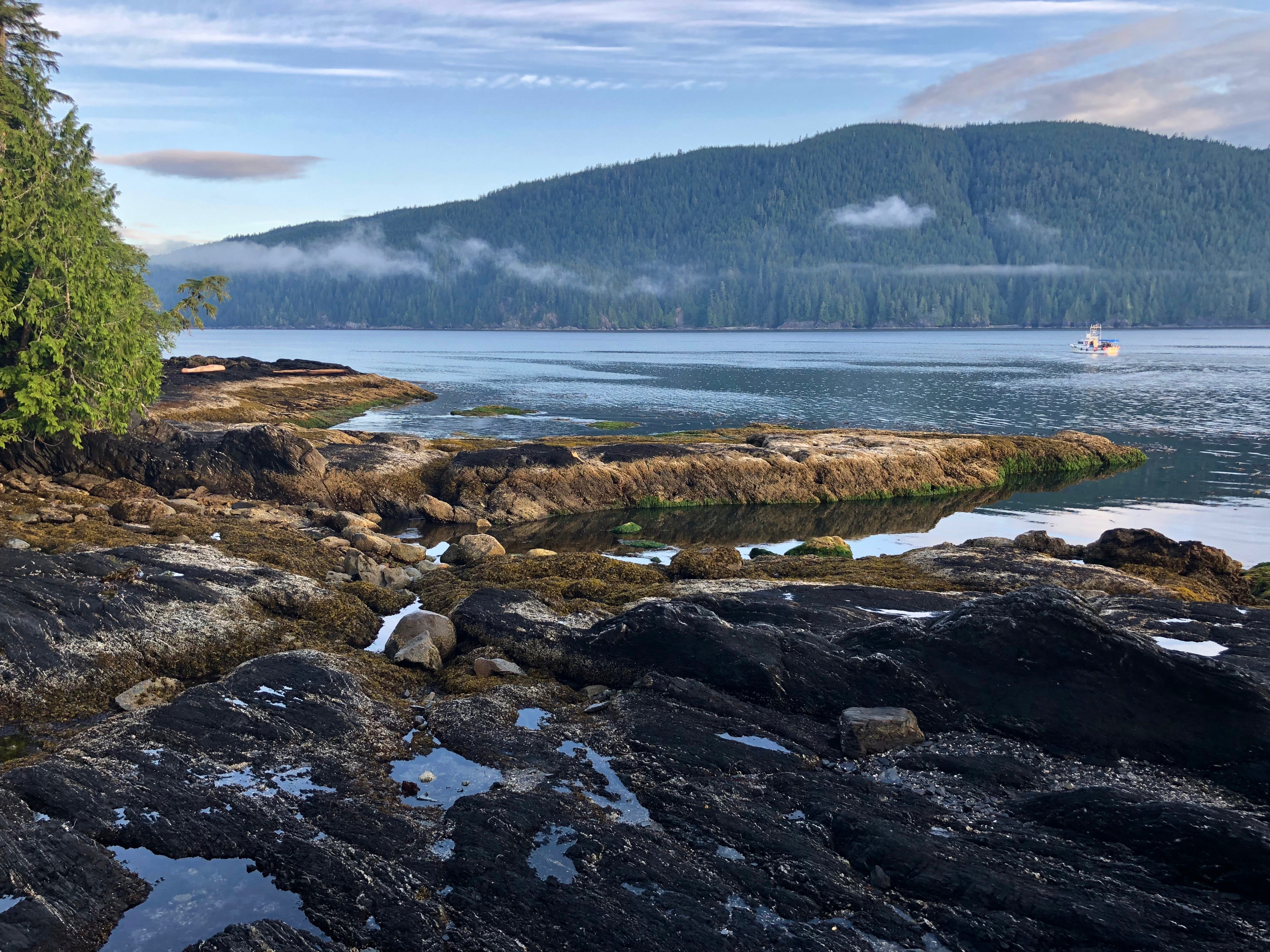 A morning at Port San Juan